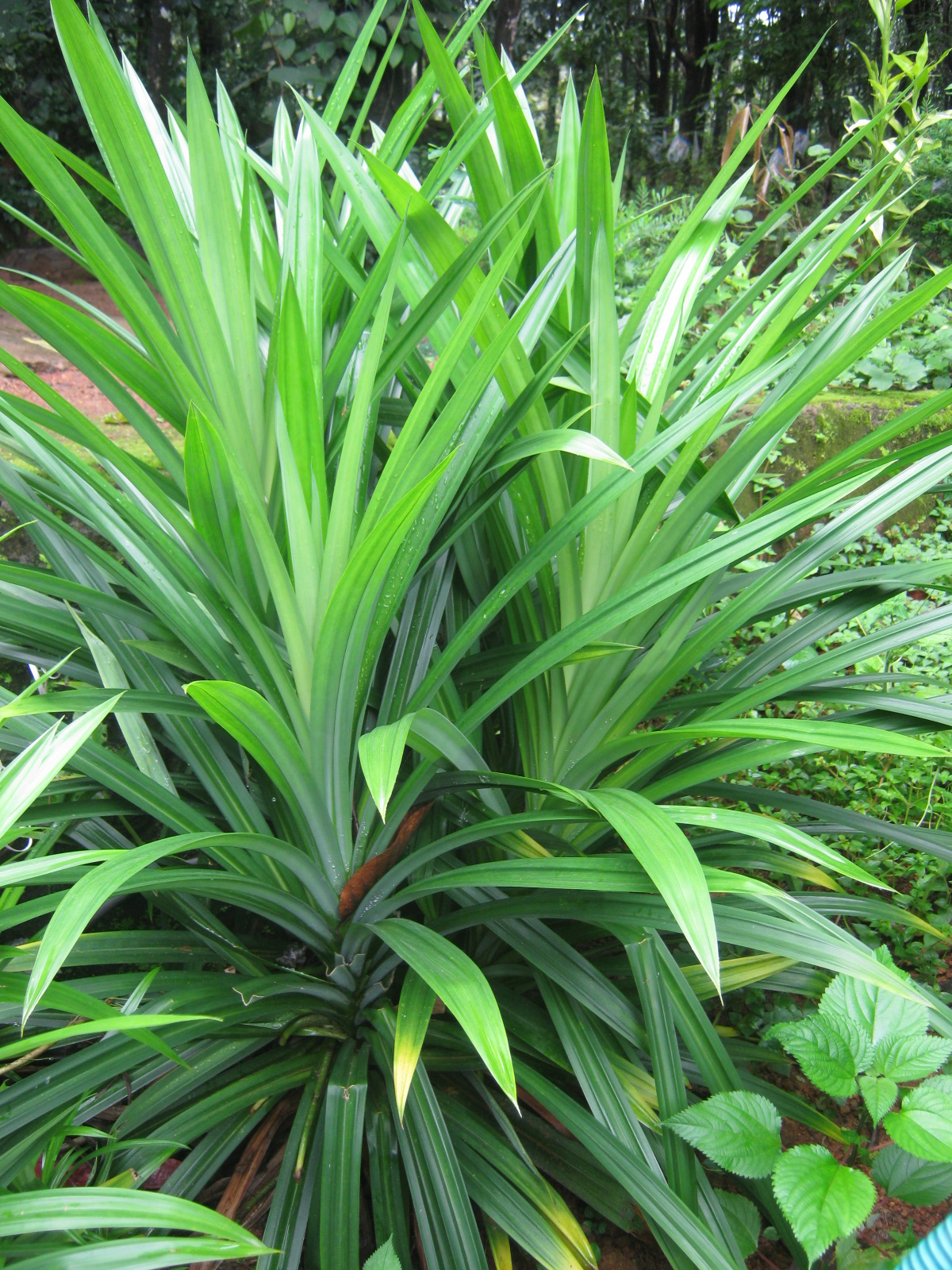 Chottola